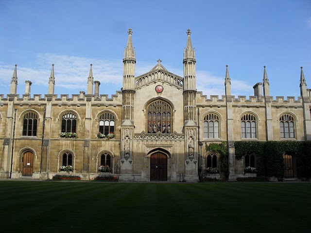 The Chapel of Corpus Christi College, Cambridge.